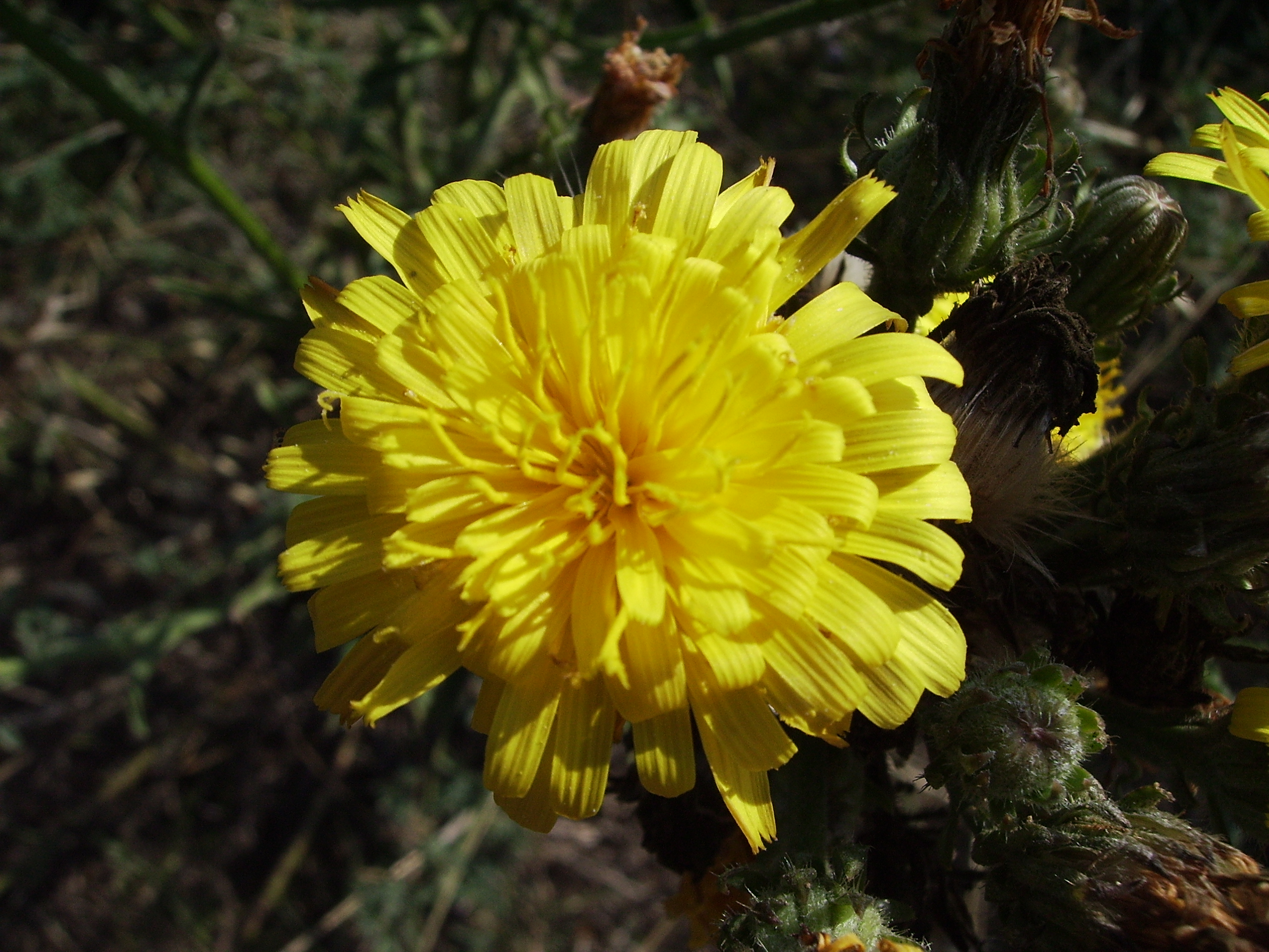 Taraxacum officinale in the wild (Castelltallat-Catalonia)